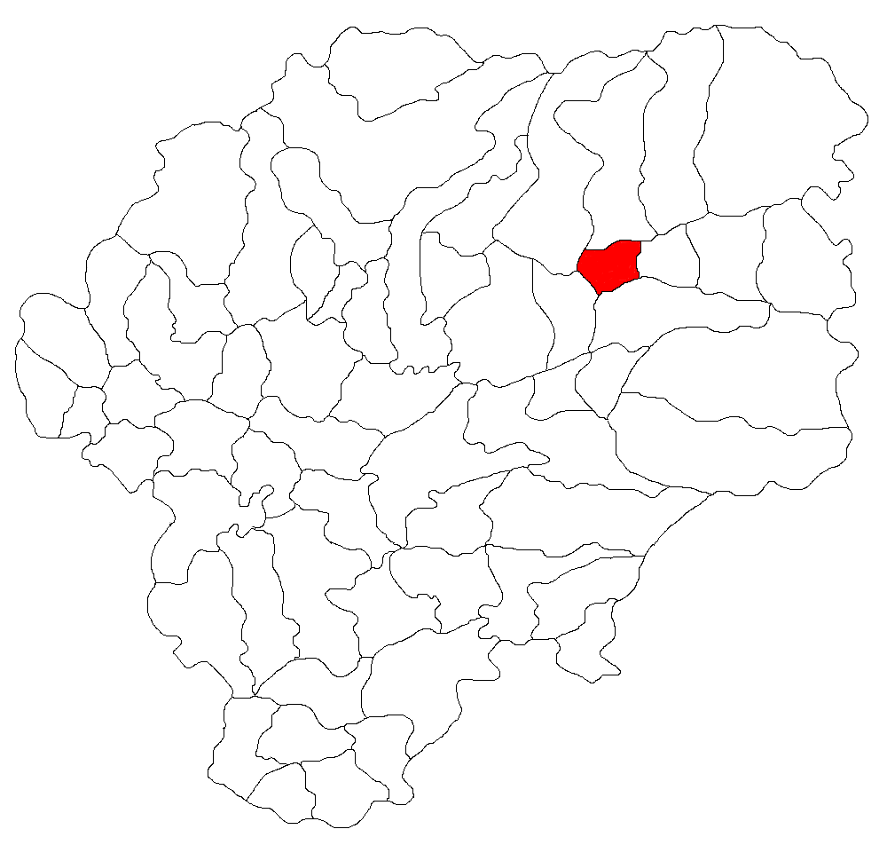 Locator map of the commune of Poiana Ilvei